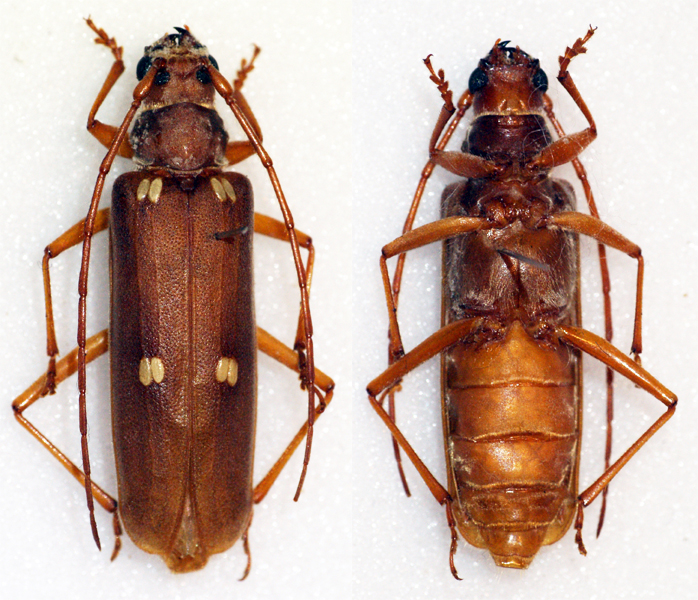 Lacordaire,1869 Sex: Female Data: 09-2000 - Crocker Range - Sabah - Borneo Size: ?